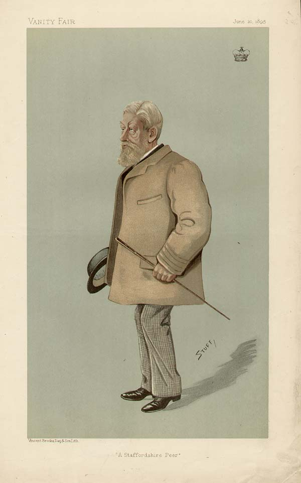 Caricature of Arthur Wrottesley, 3rd Baron Wrottesley JP DL. Caption read "A Staffordshire Peer".